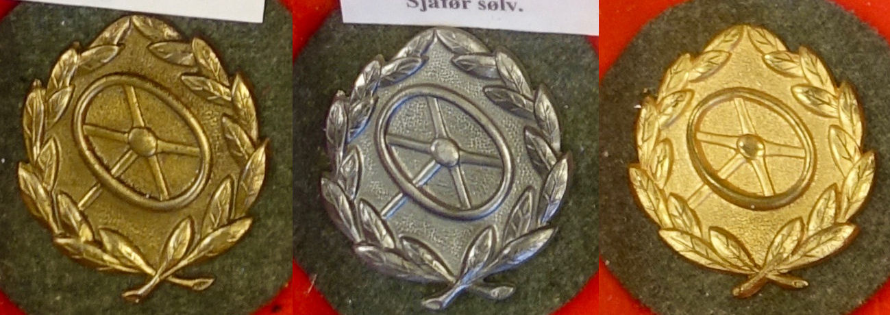 Front Line Driver's Badge (Kraftfahrbewährungsabzeichen) in Bronze, Silver and Gold